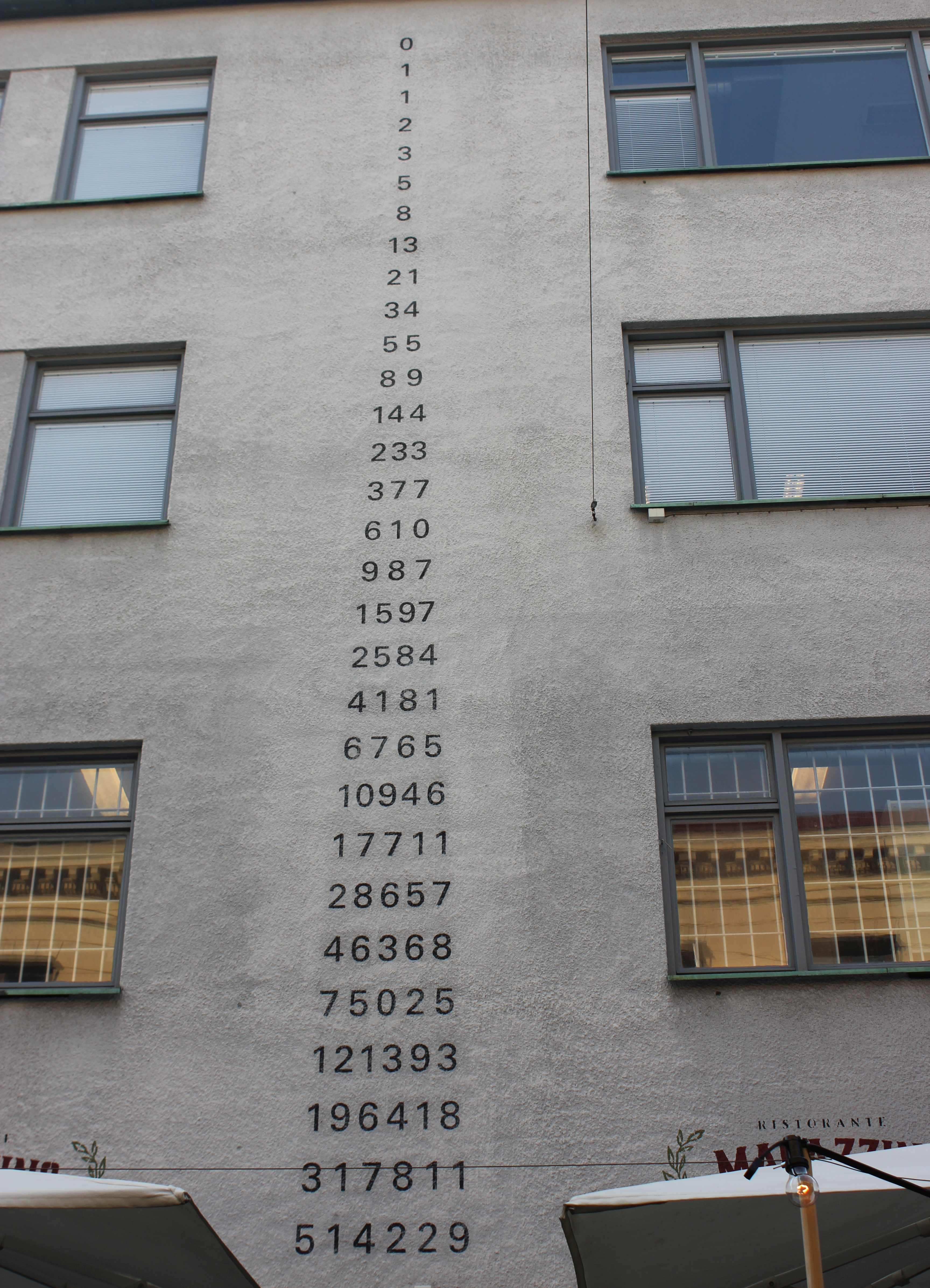 Gothenburg - Fibonacci numbers on a building in Magasinsgatan